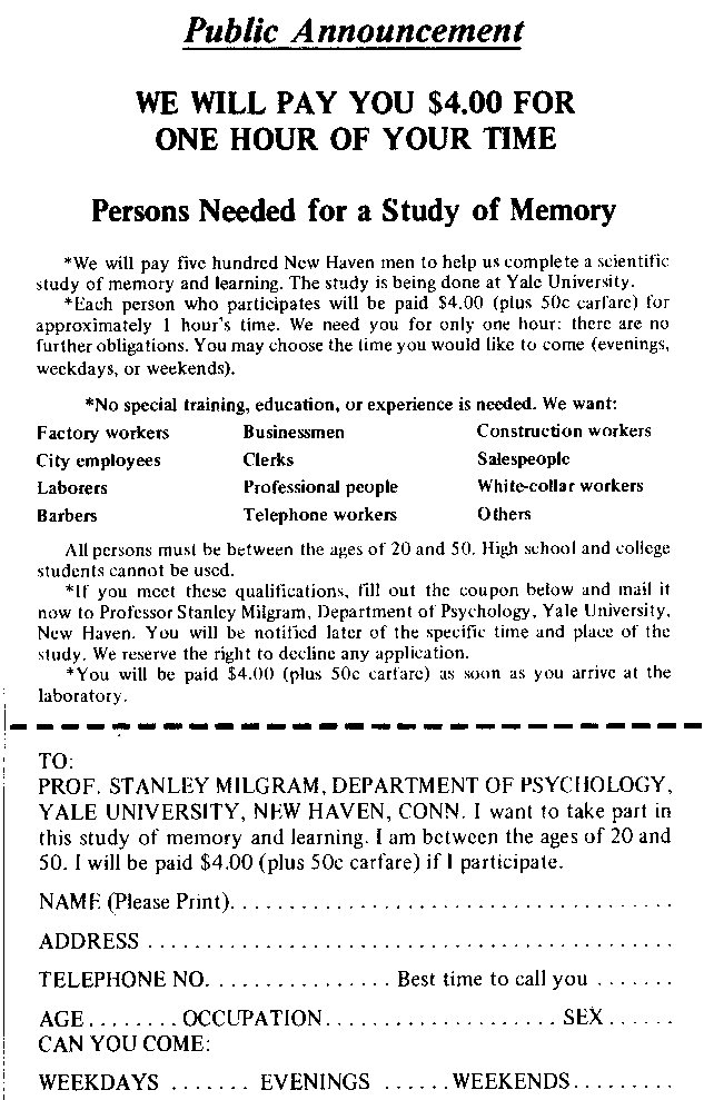 Advertisement for the recruiting of the Milgram experiment subjects